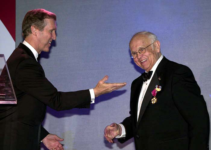 Defense Secretary William S. Cohen greets Johnny Grant, Hollywood's ceremonial mayor and a veteran of 54 USO tours, during a military concert in Beverly Hills, Calif. Grant was the master of ceremonies of the Nov. 30 concert, hosted by DoD and the USO to honor the Hollywood film industry